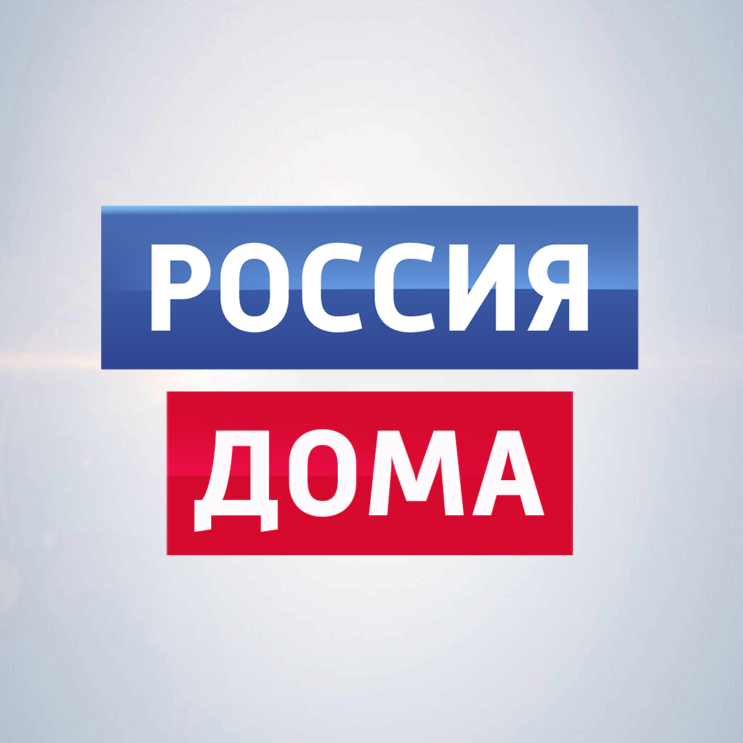 Russia-1 logo during Coronavirus COVID-19 pandemic